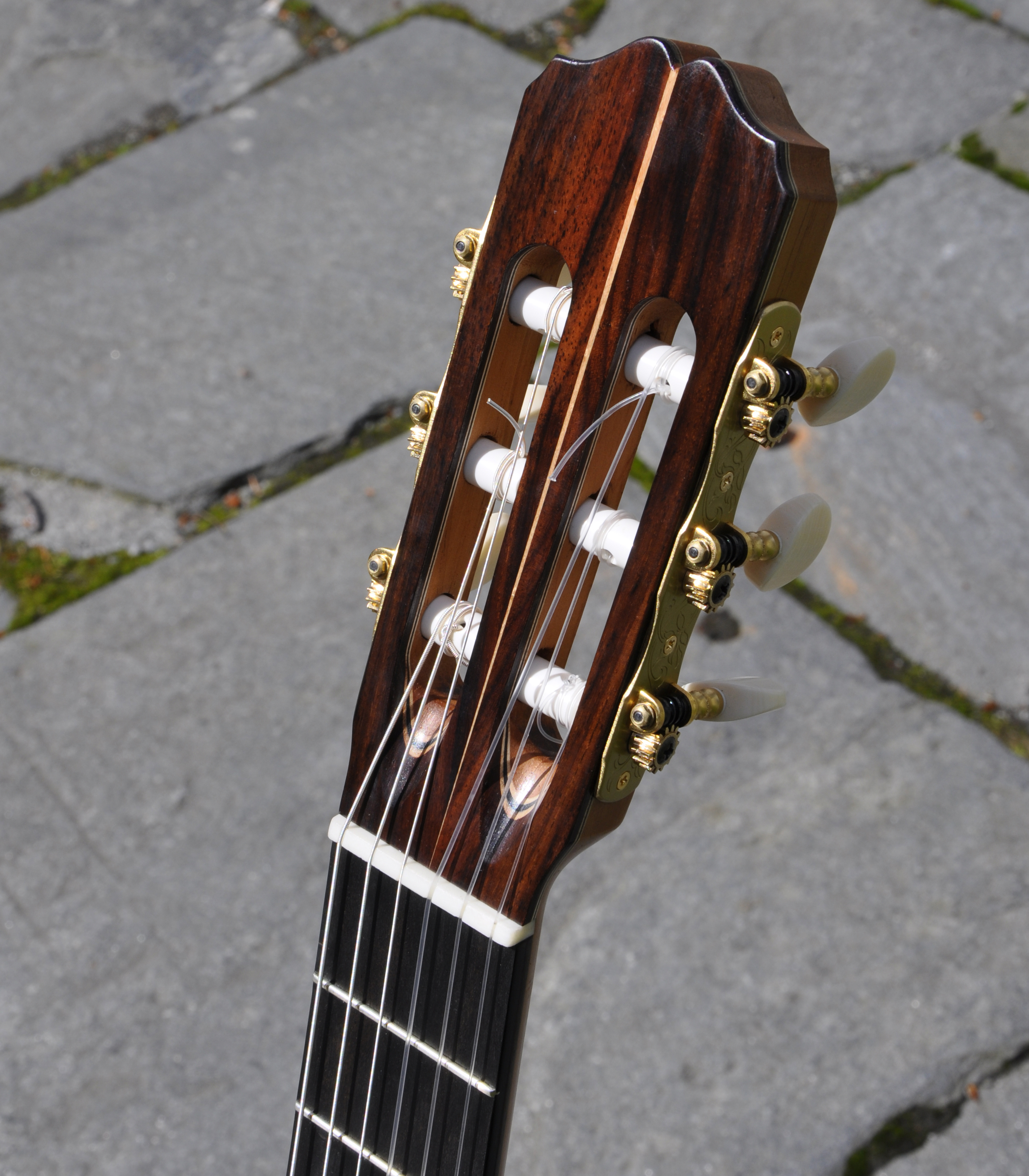 Slotted headstock on classical guitar